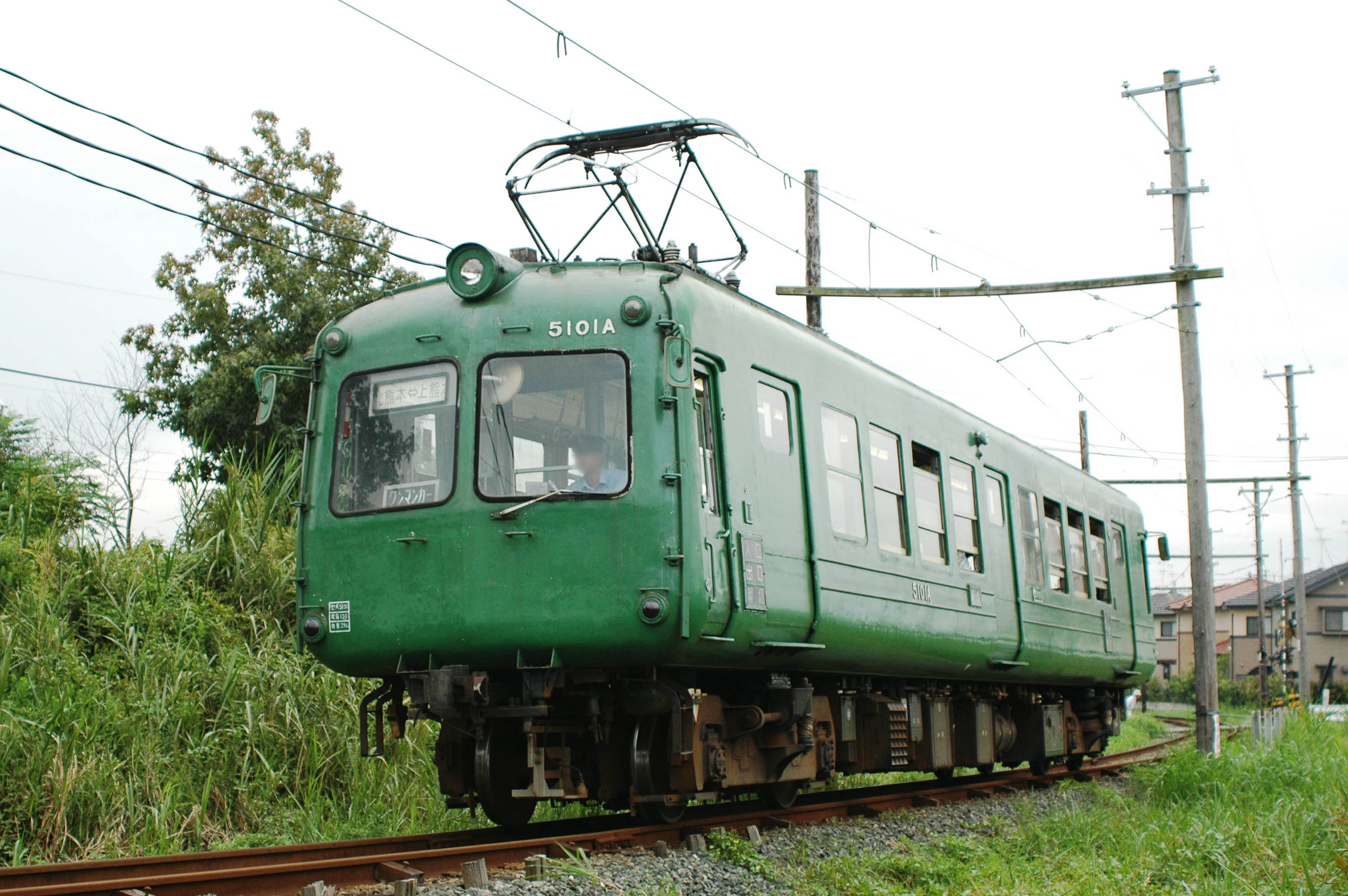 Kumamoto Railway type 5000 electric car. 東急時代の緑色に塗り戻されて運転されている熊本電鉄5000系。